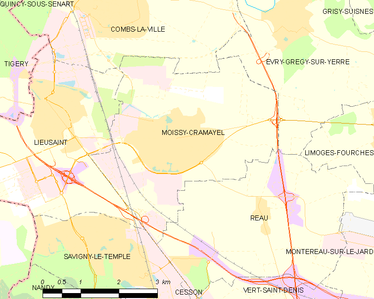 Map of French municipality Moissy-Cramayel